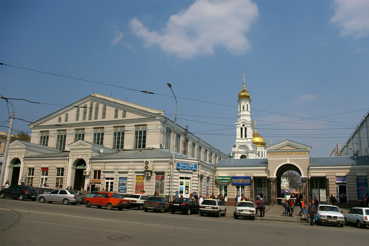 Entrance to the Central Market (Old Bazar) in Rostov-na-Donu